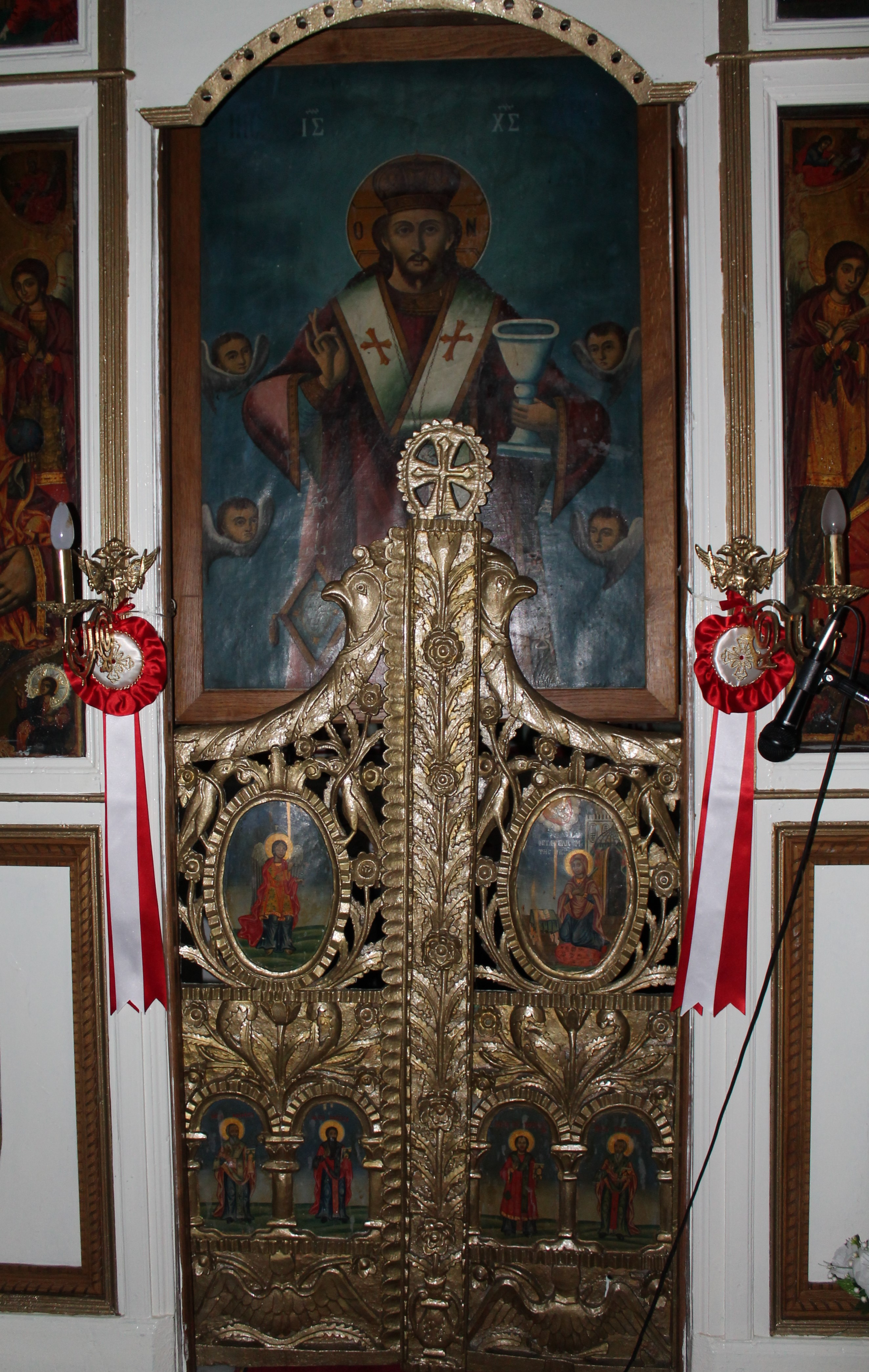 Royal Doors from the Holy Spirit Monastery near the village of Agio Pnevma (Vеznik)